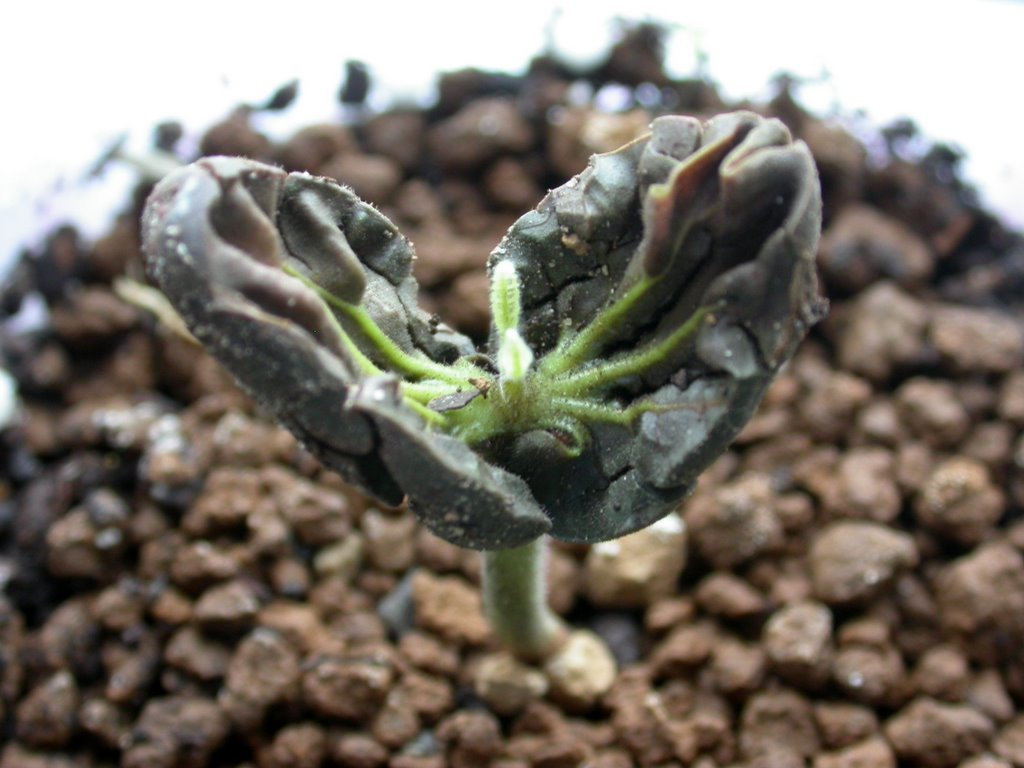 Semis de cacaoyer - Theobroma seedling